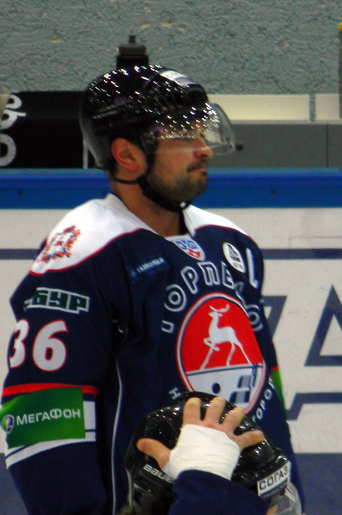 Evgeny Varlamov, a hockey player from Torpedo Nizhny Novgorod